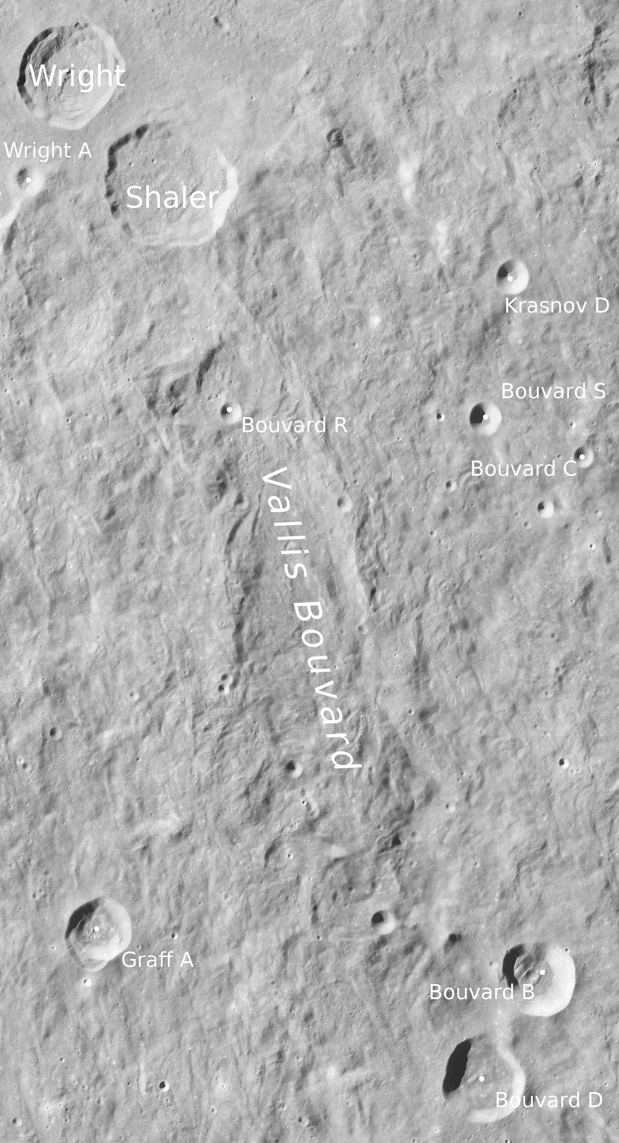 Vallis Bouvard with craters Shaler and Wright (detail of LRO - WAC global moon mosaic; Mercator projection)